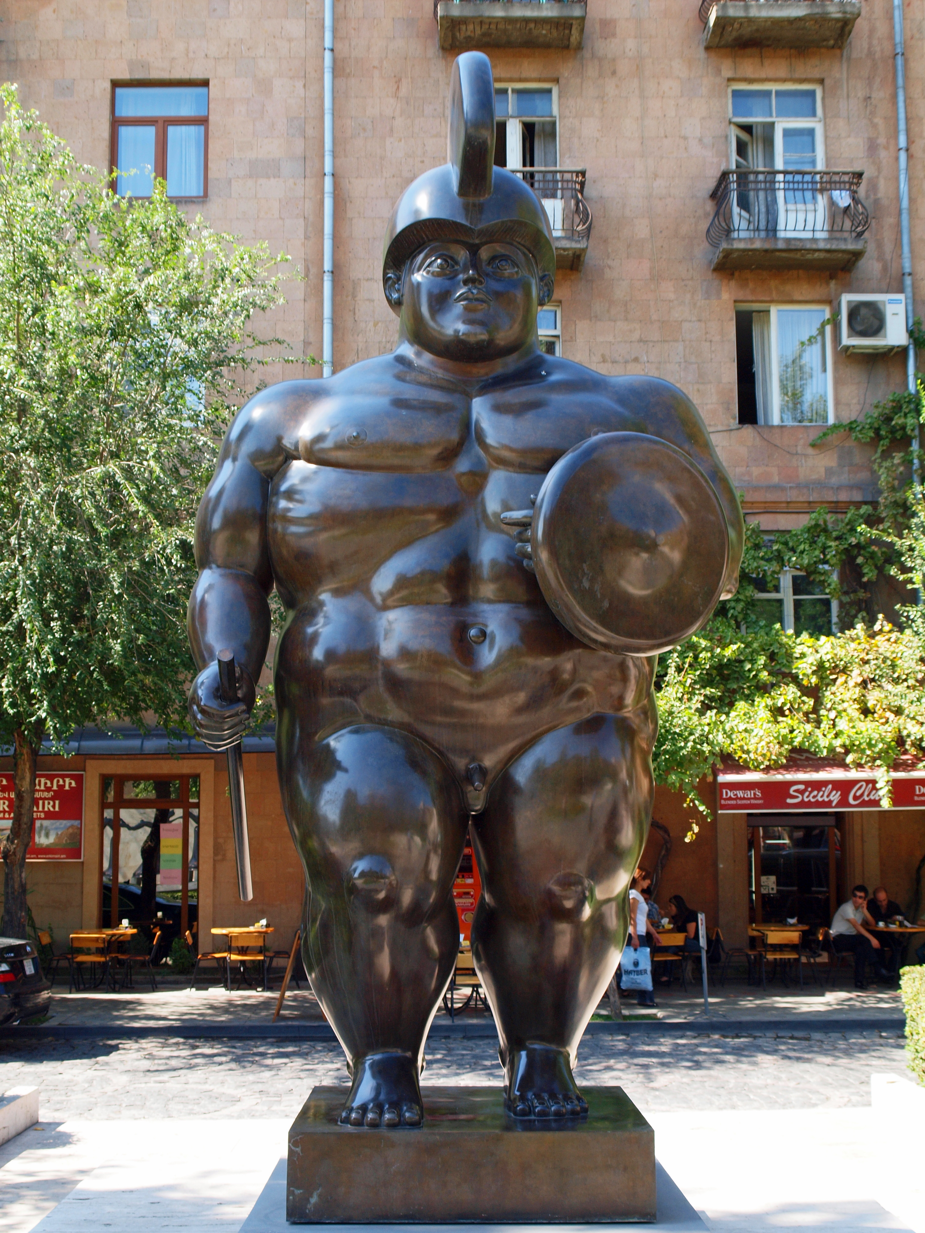 Sculpture in the park at the bottom of the Cascades in Yerevan